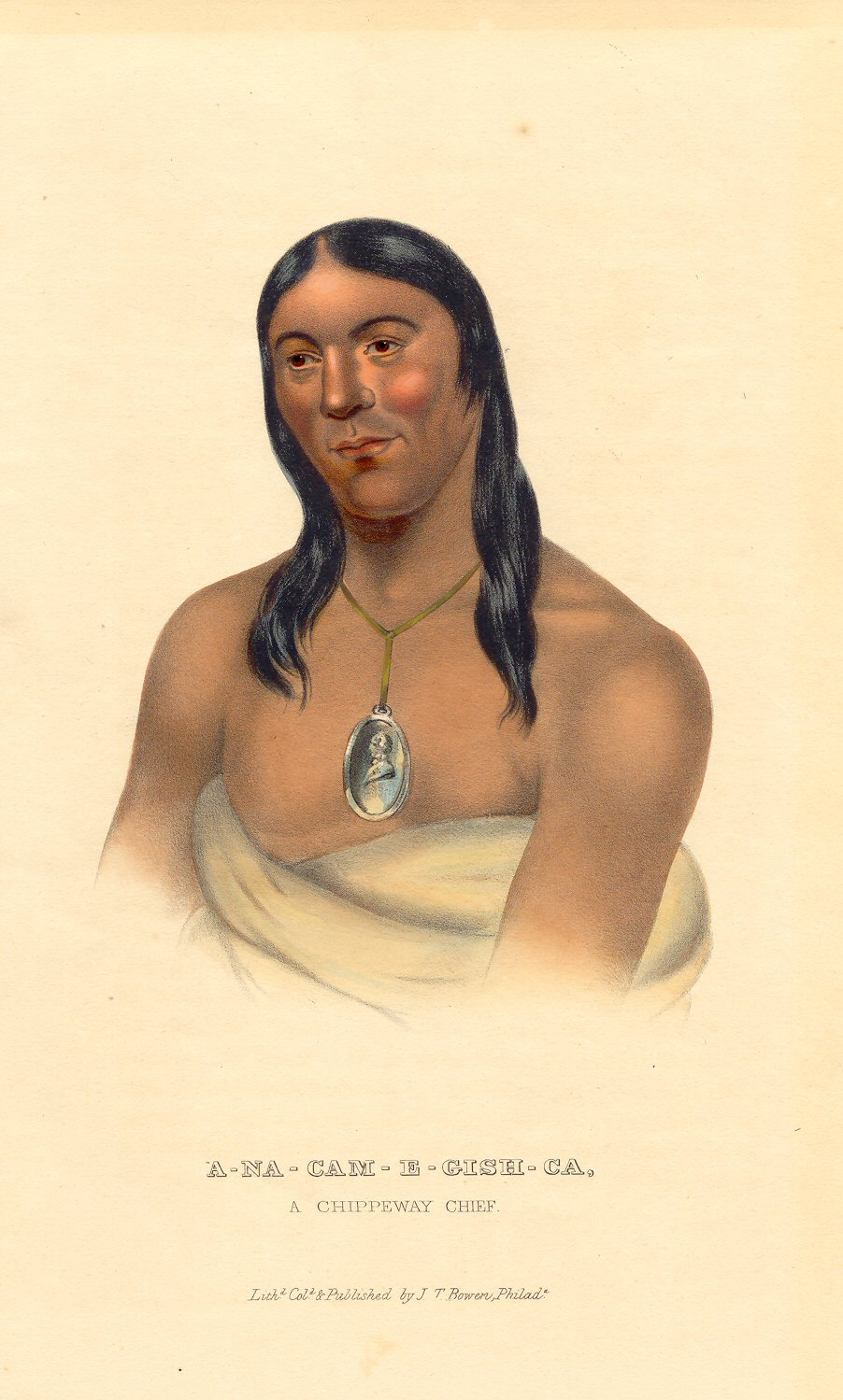 A-na-cam-e-gish-ca, a Chippeway Chief, painted by Charles Bird King Lithographed, colored and published ca. 1836-44 by J.T. Bowen, Philadelphia. SI.1990.010 H.10 1/4" X W.6 3/8" (octavo)